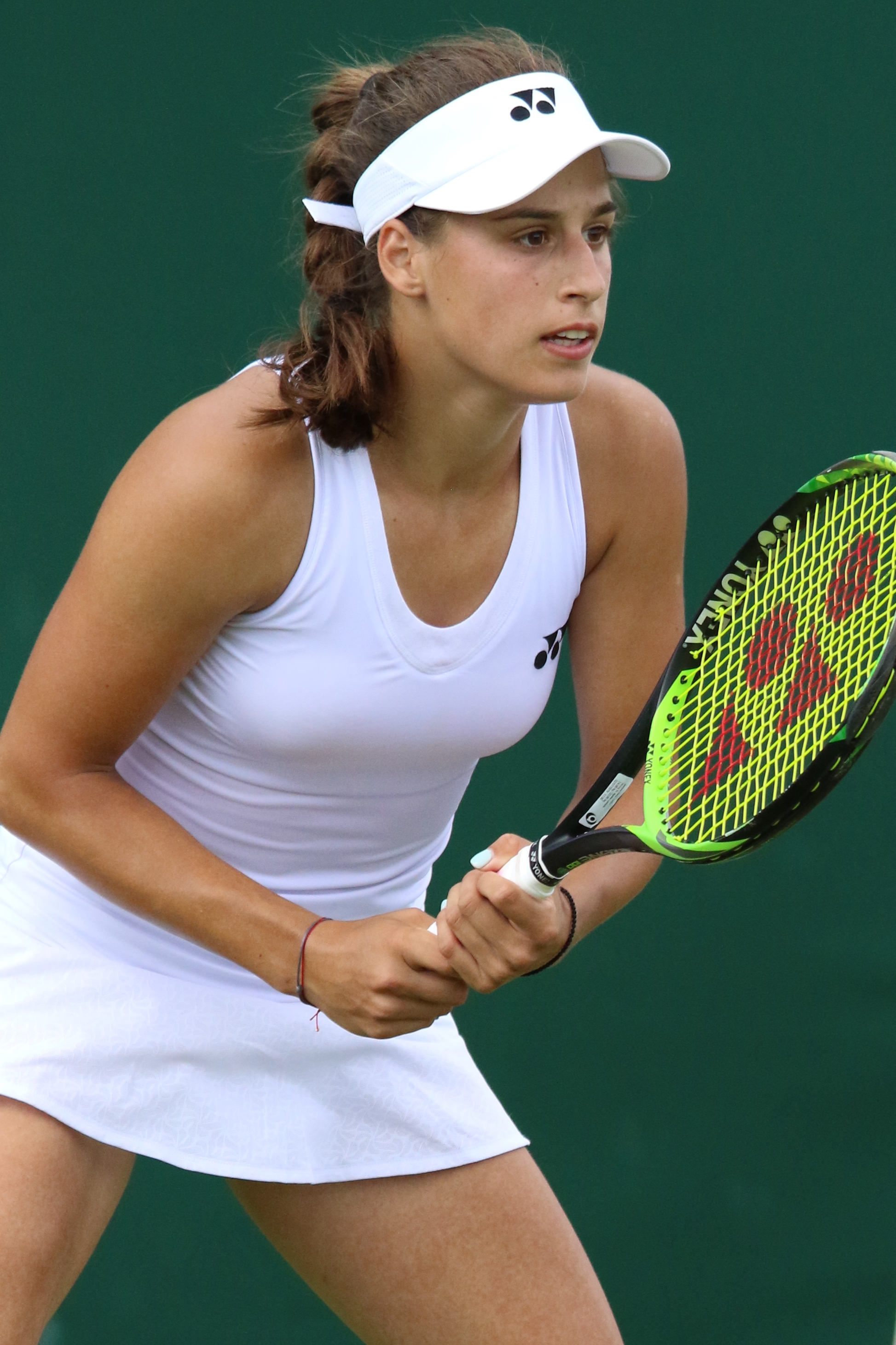 Jorovic WM19 (16)